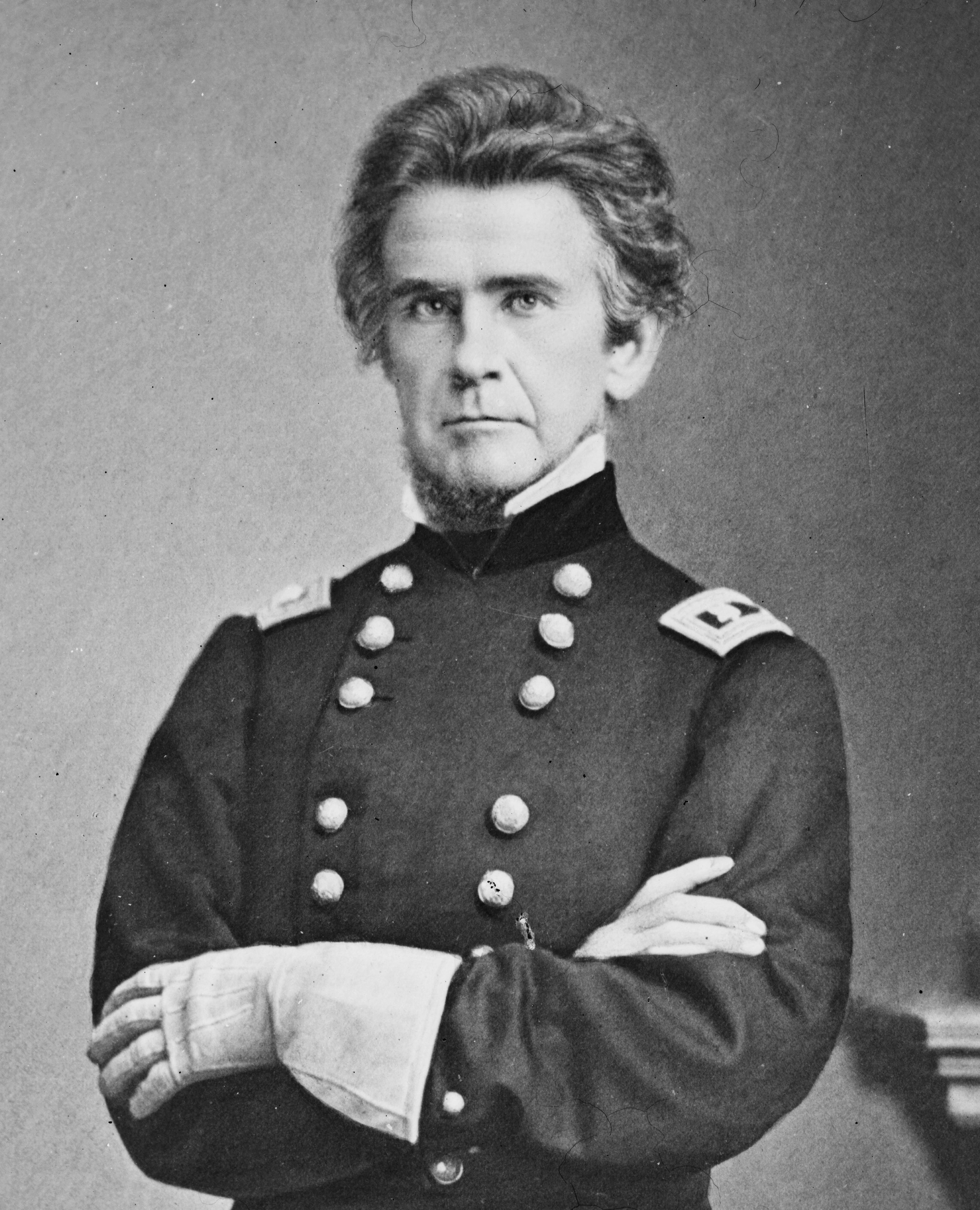 Major General Ormsby MacKnight Mitchel, c. 1862